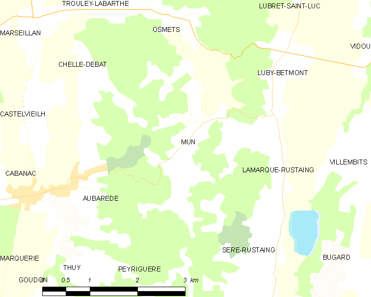 Map of French municipality